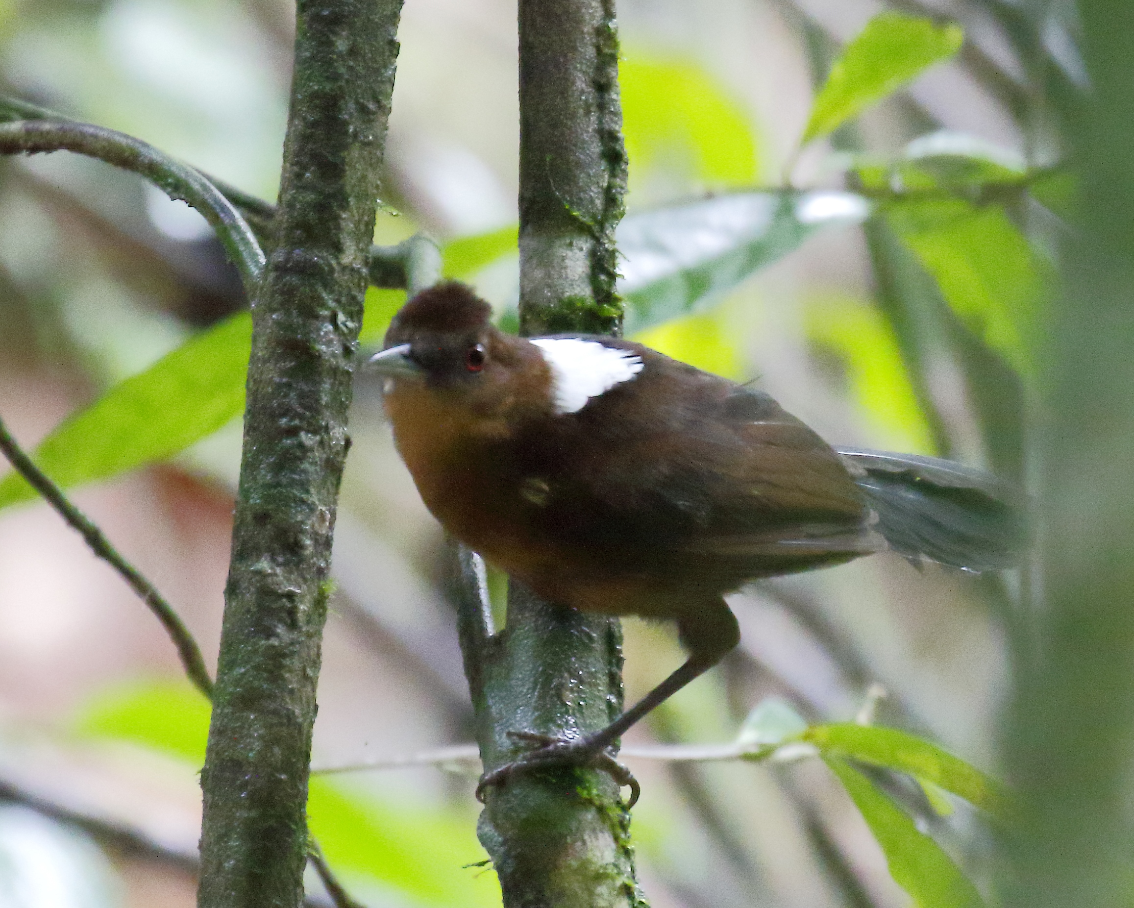 Pernambuco fire-eye (female) at Pilar, Alagoas, Brazil